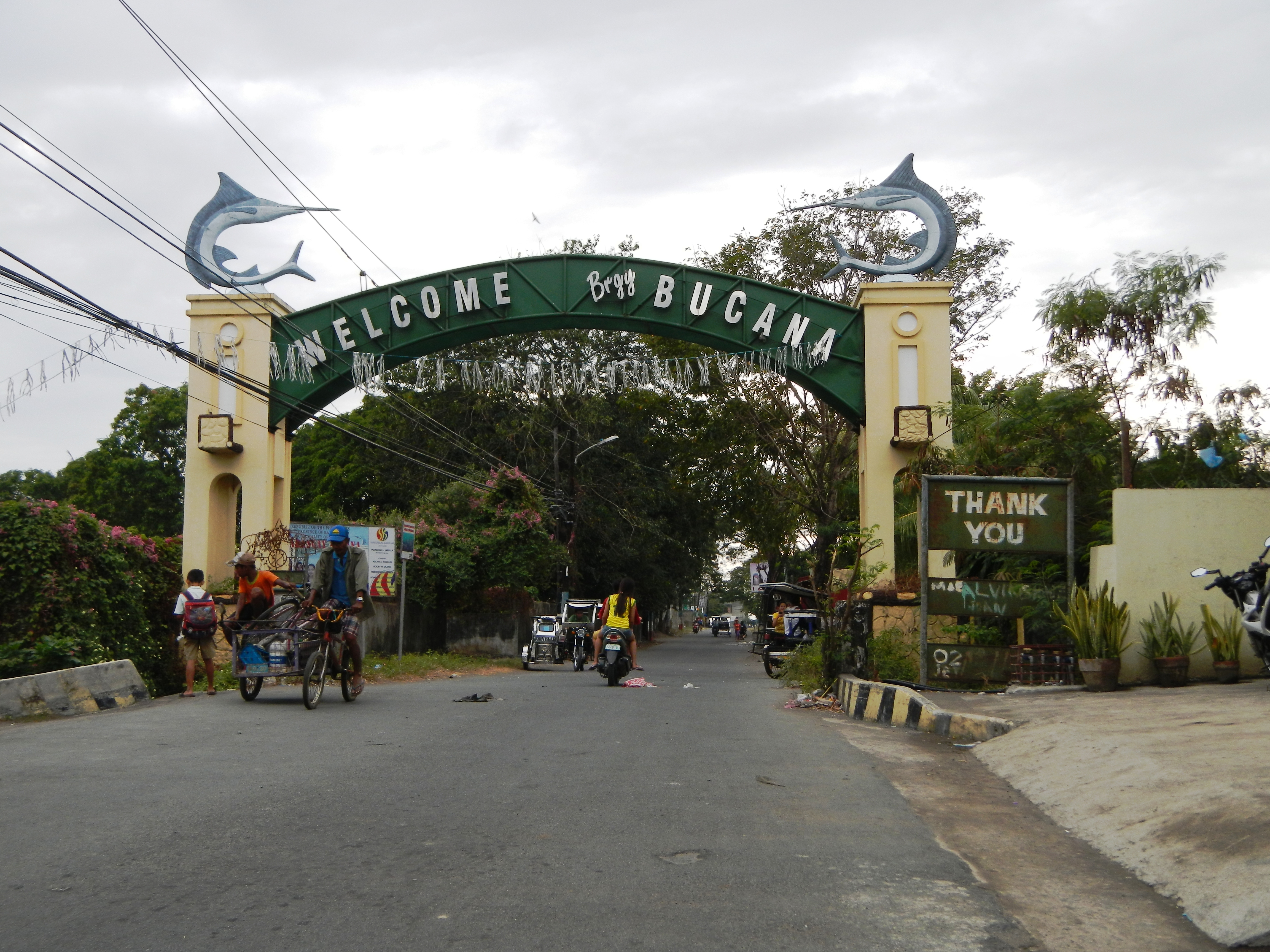 Upload Wizard photos of - Nasugbu, Batangas[1] - Town Proper, Centro, downtown, the Nasugbu Public Market Poblacion Barangay X, the fishes and varieties of seafoods of the Philippines - and the beautiful Beaches - - "Pagdaong sa Nasugbu" - this seashore beach site is the place of the Allied Forces Landing - the soldiers of the First Batallion and 188th Glider Infantry of the 11th Airborne Div. 11th Airborne Division (United States) [2] on January 31, 1945 for Liberation of the Philippines against Japan under Eighth United States Army U.S. Eight Army[3] Lt. Gen. Robert L. Eichelberger - R. Eichelberger, CG[4] 11th Airborne Div. 11th Airborne Division (United States) [5] US Army Lt. Gen. Joseph May Swing, [6] CG Group VII 'Phib Rear Admiral Fechteler - Filipino Forces Col.Terry Magtanngol Adevoso, Overall Commander 4th ROTC Division - Hunters Guerillas - also Lt. Col. Marcelo Castillo and Col. Eleuterio L. Adevoso (b. February 20,1921-d. March 22,1975) was a guerilla leader and officer of the famous Hunters ROTC Guerillas - January 31, 1992 Memorial - Philippines Campaign (1944–45) [7] Battle of Luzon[8]